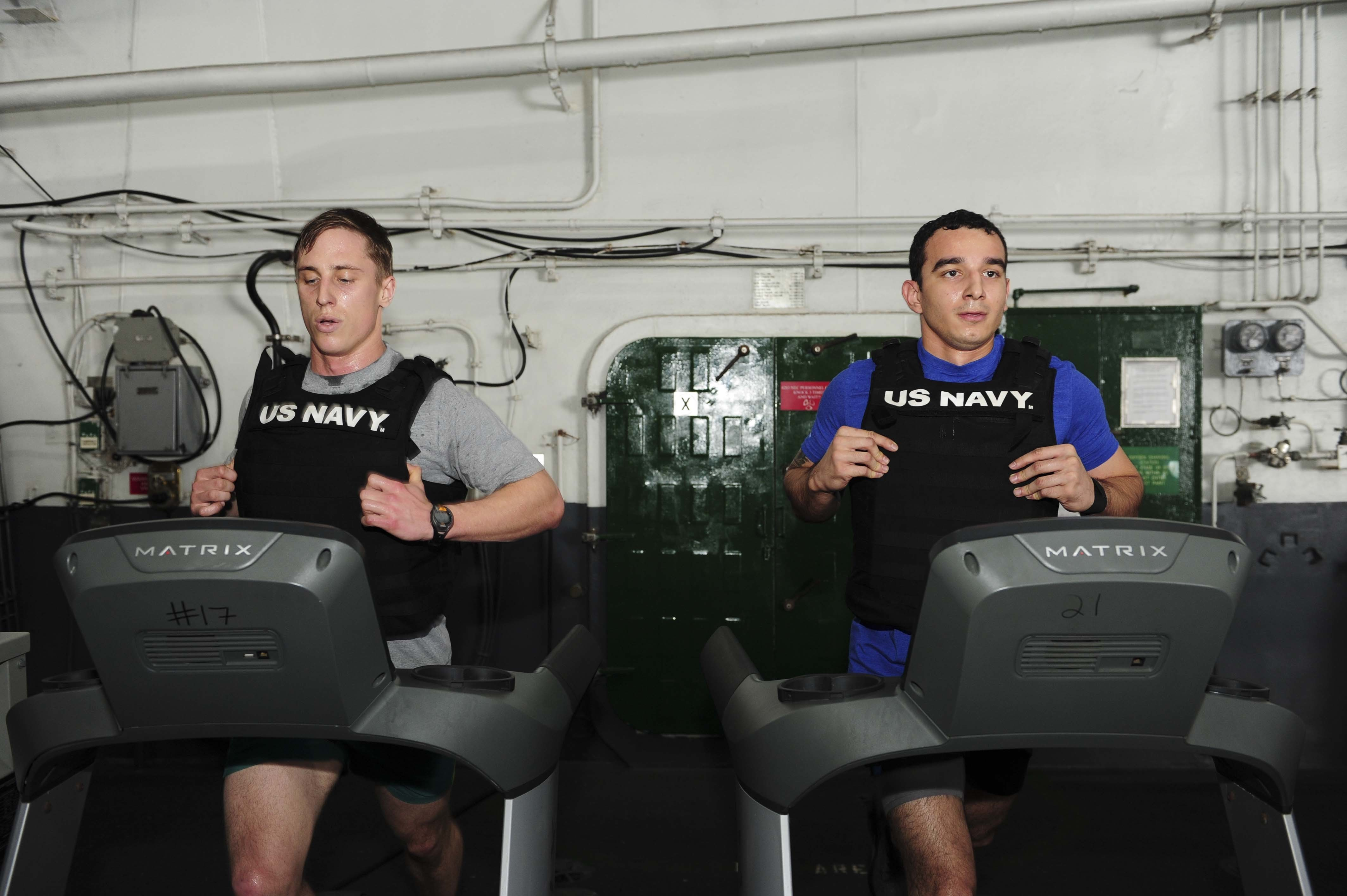 150524-N-GN619-065 U.S. 5TH FLEET AREA OF OPERATIONS – Naval Aircrewman 2nd Class Rafael Alcala, from Las Vegas, and Naval Aircrewman 2nd Class Clayton Kimbrough, from Houston, run their first mile in the Murph Challenge aboard the aircraft carrier USS Theodore Roosevelt. The Murph Challenge honors fallen Navy SEAL Lt. Michael Murphy and requires a 1 mile run, 300 squats, 200 push-ups, and 100 pull-ups, finishing with another 1 mile run, all while wearing a 20-pound weighted vest. Theodore Roosevelt is deployed in the U.S. 5th Fleet area of operations supporting Operation Inherent Resolve, strike operations in Iraq and Syria as directed, maritime security operations and theater security cooperation efforts in the region. Unit: Navy Media Content Services